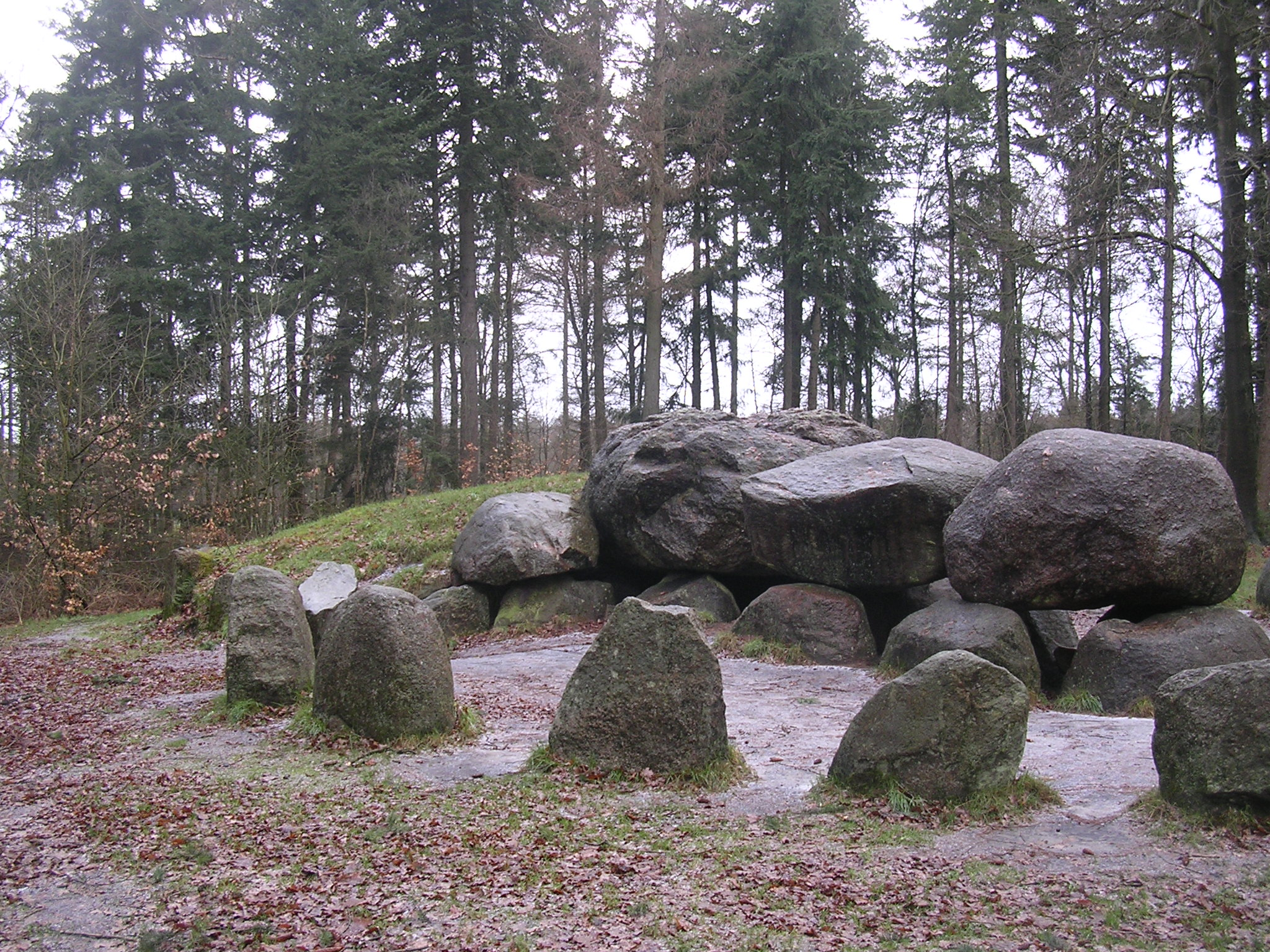 Hunebed D49 near Schoonoord (The Netherlands) also known as De Papeloze Kerk